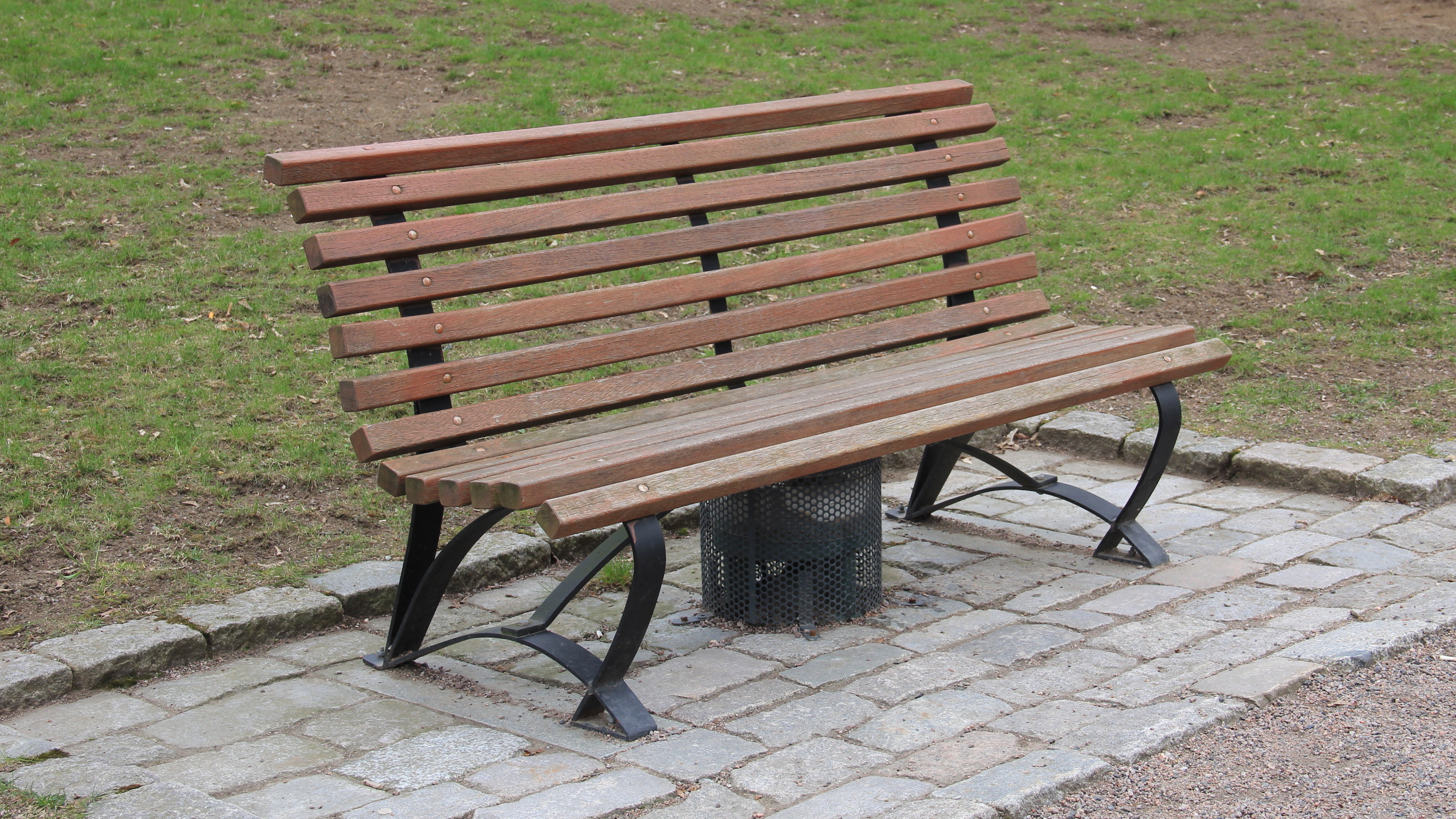 Sibelius Park, Hämeenlinna, Finland. - Musical park bench is activated by motion detector. It plays one of Sibeius's Cinq Morceaux op. 75 piece.